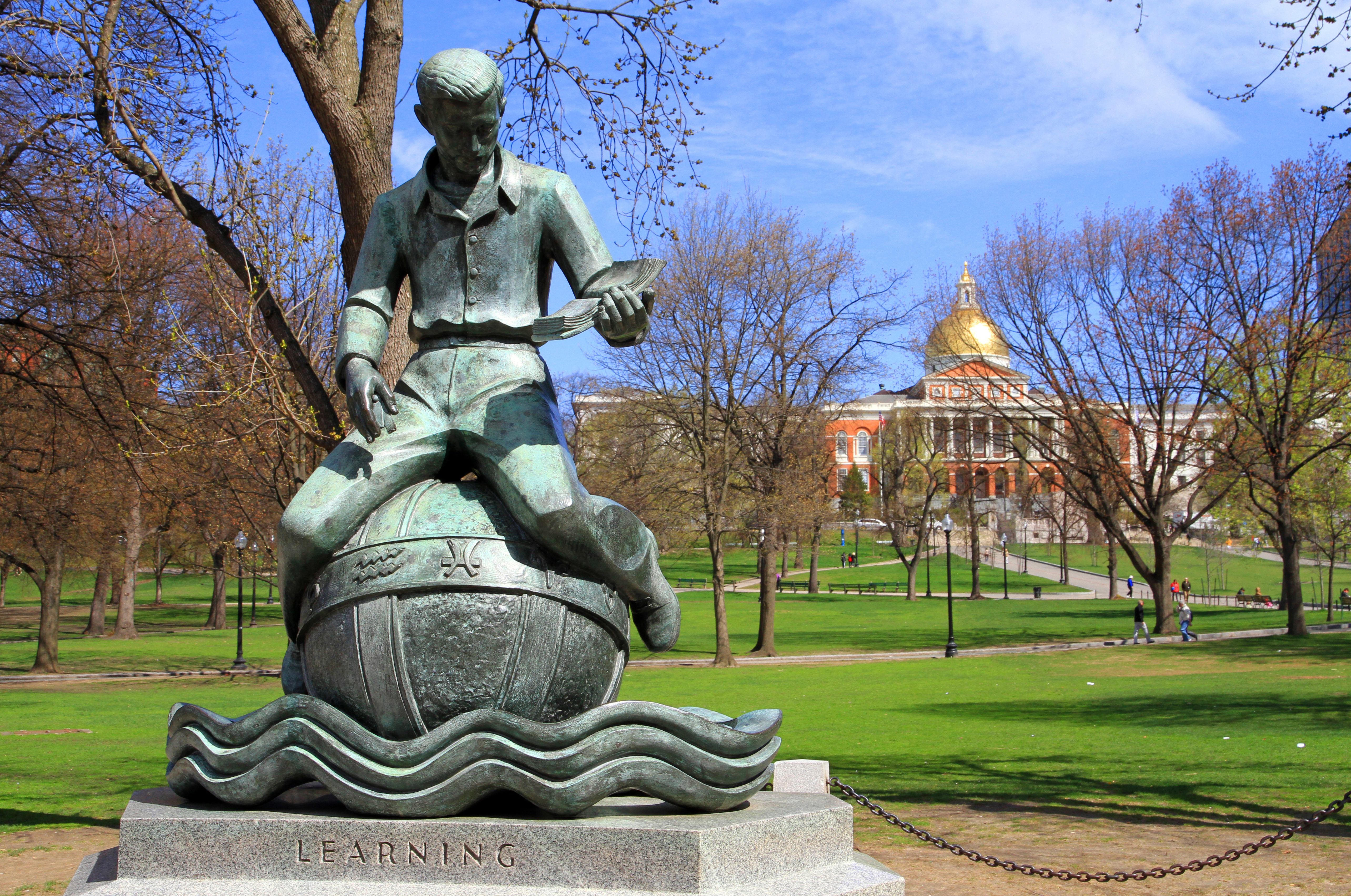 Learning Statue in Public Garden, Boston